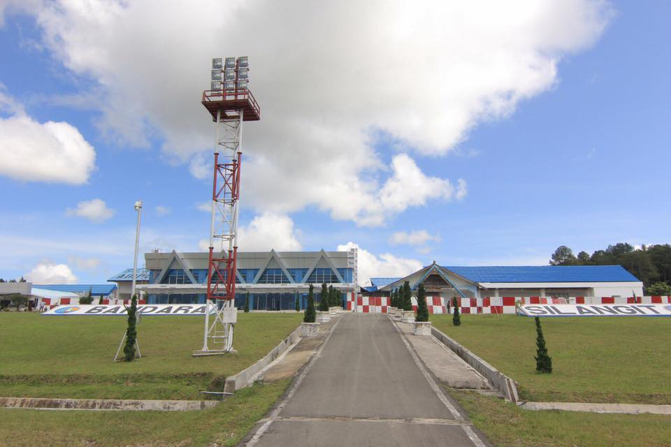 Silangit Airport, Siborong-borong, North Sumatara, Indonesia